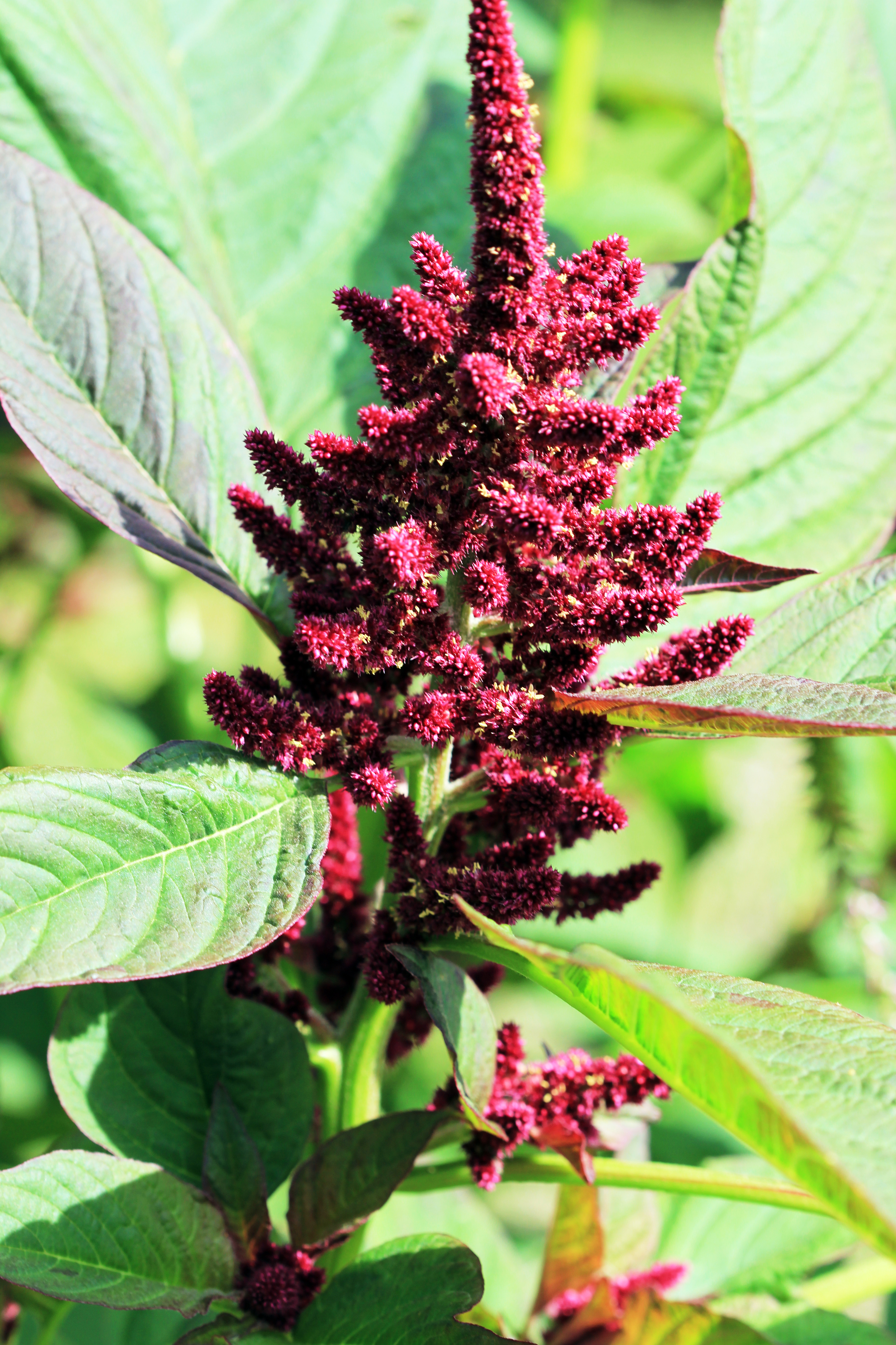 Flower of plant Amaranthus hypochondriacus, (Amaranthus hypochondriacus) from the Botanical Gardens of Charles University, Prague, Czech Republic